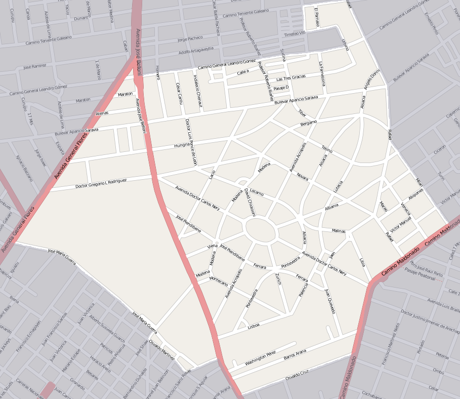 Street map of Jardines del Hipódromo, Montevideo, exported from OpenStreetMap. I added shading to delimit the barrio. This map may be incomplete, and may contain errors. Don't rely solely on it for navigation.